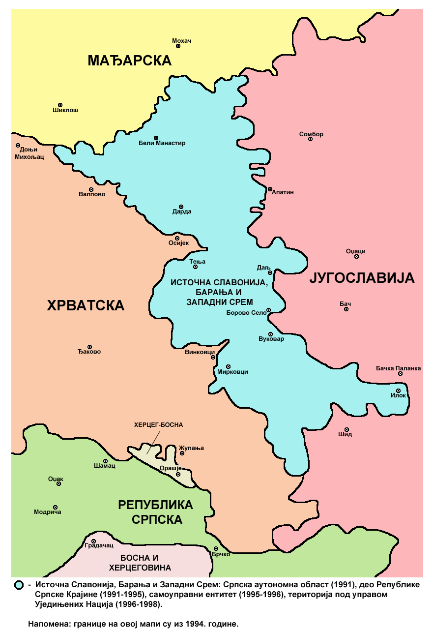 Map of the Eastern Slavonia, Baranja and Western Srem - Serbian language version.